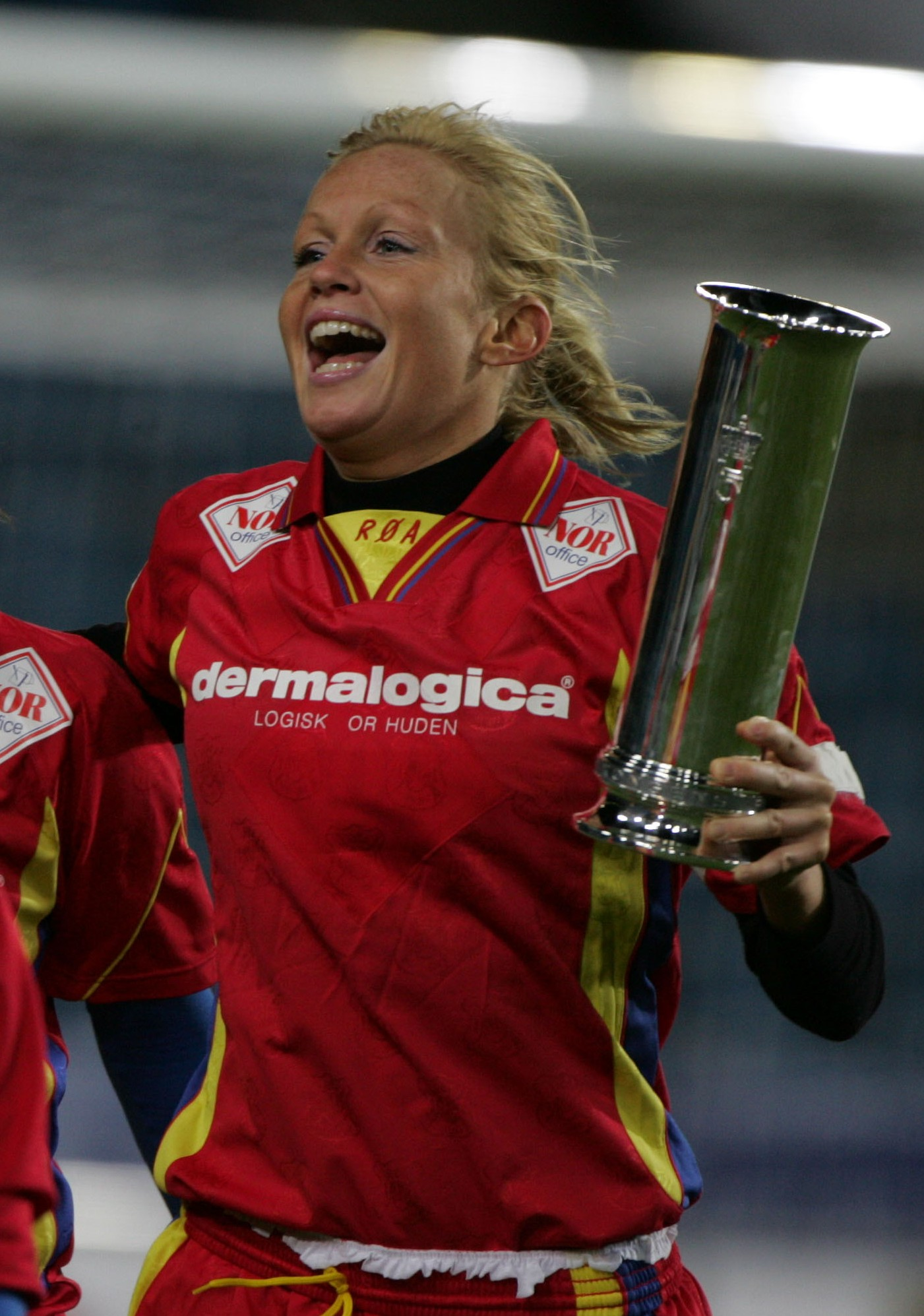 Kristine Edner holding the cup trophy after the 2004 Norwegian cup final.